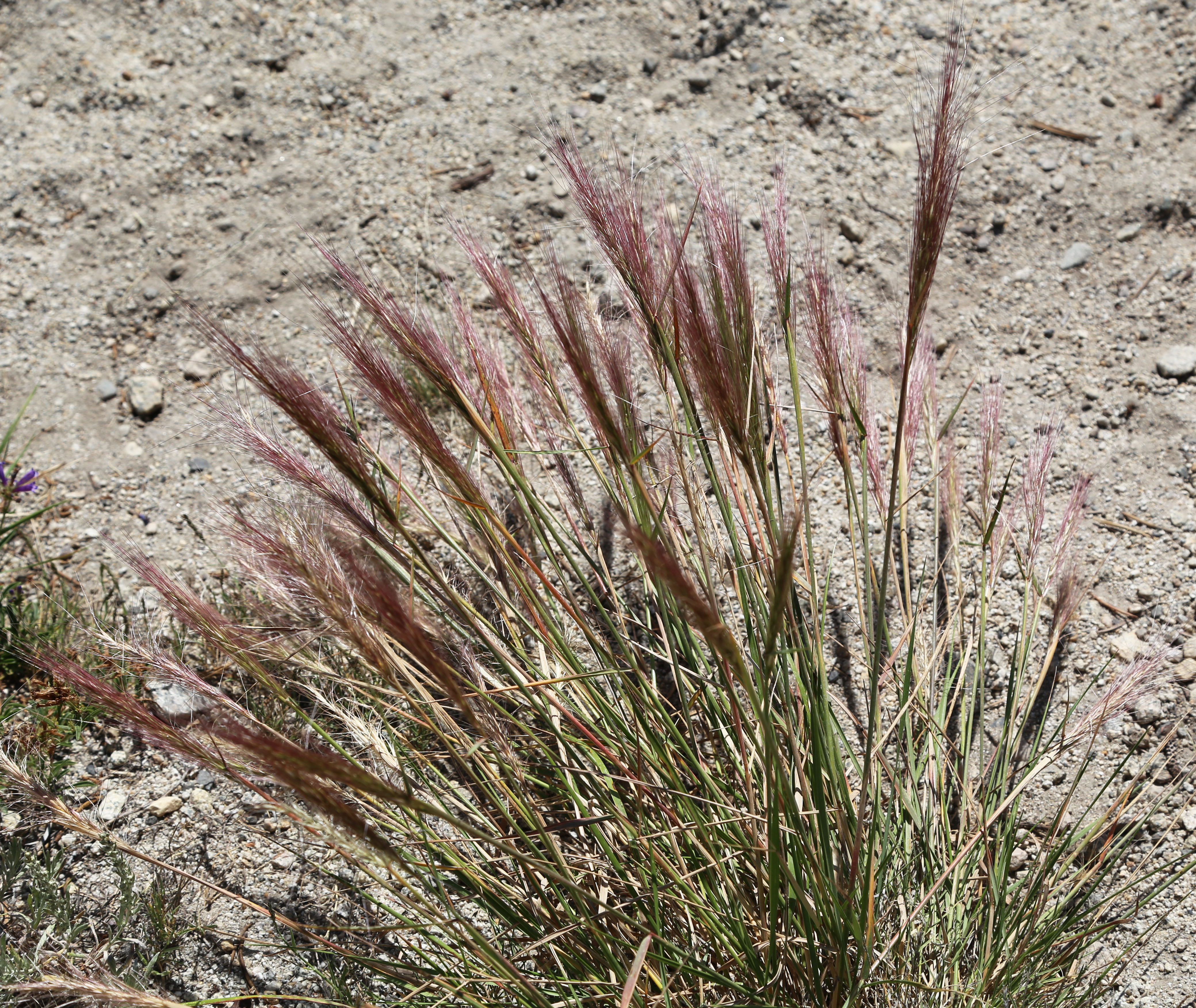 Squirrel-tail grass (Elymus elymoides) spikes, in early-season, narrow red form. Near trail into Little Lakes Valley, John Muir Wilderness, Sierra Navada USA.